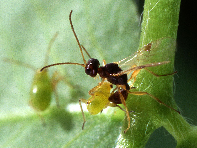 Parasitic wasp from Image Number K7867-1 A quarter-inch-long parasitic wasp, Peristenus digoneutis, prepares to lay an egg in a tarnished plant bug nymph. Photo by Scott Bauer.